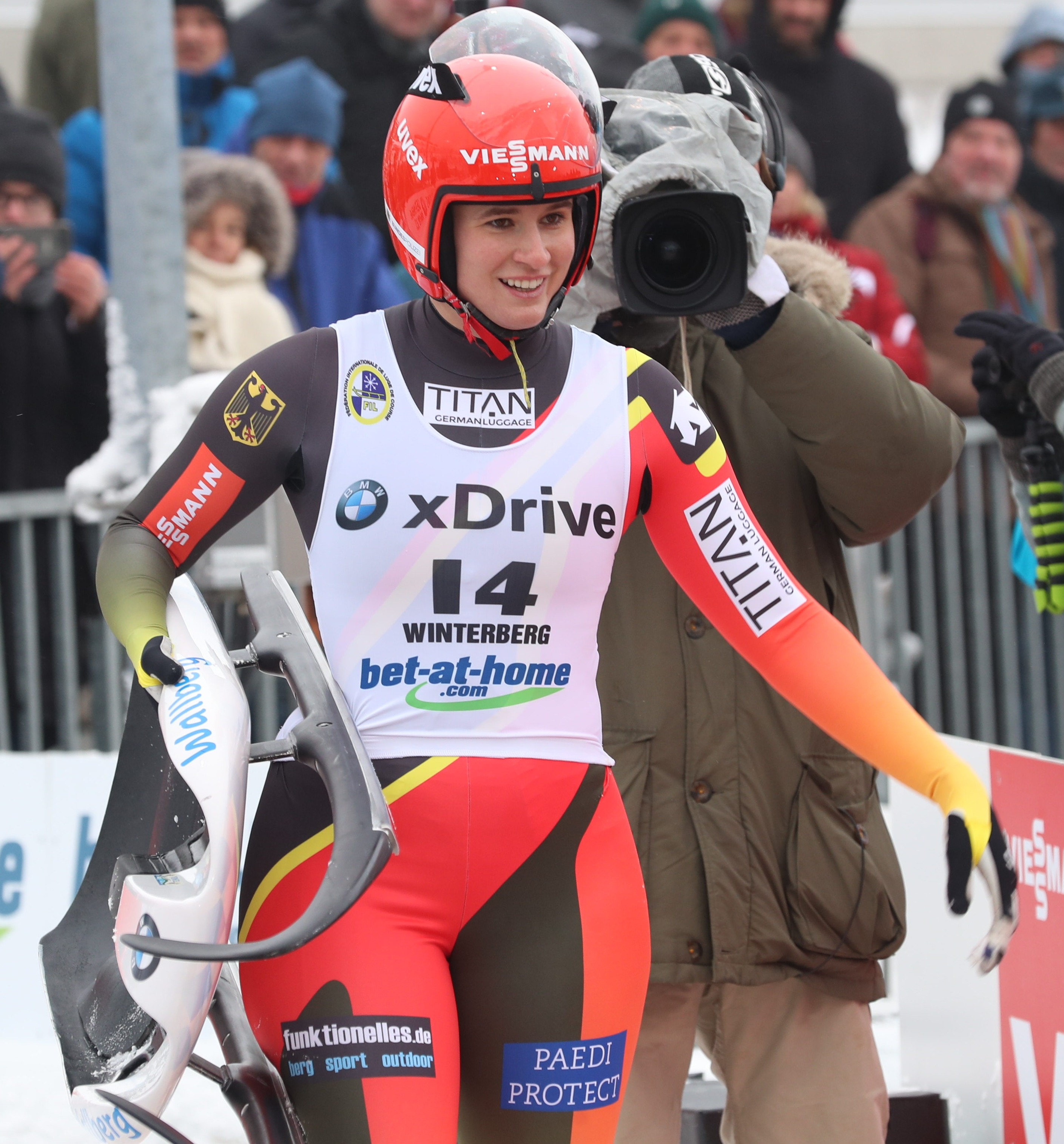 Women's Sprint World Championships at the FIL World Luge Championships 2019 in Winterberg